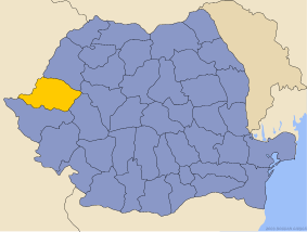 Location of Arad County in Romania.